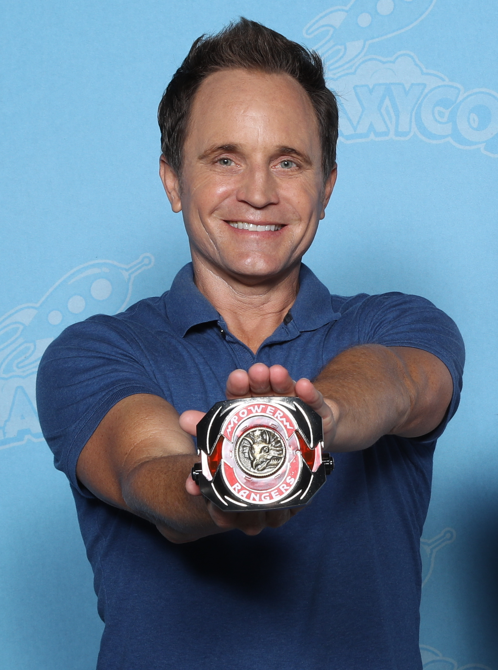 David Yost at GalaxyCon Raleigh in 2019